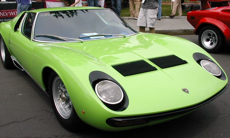 Lamborghini Miura P400SV